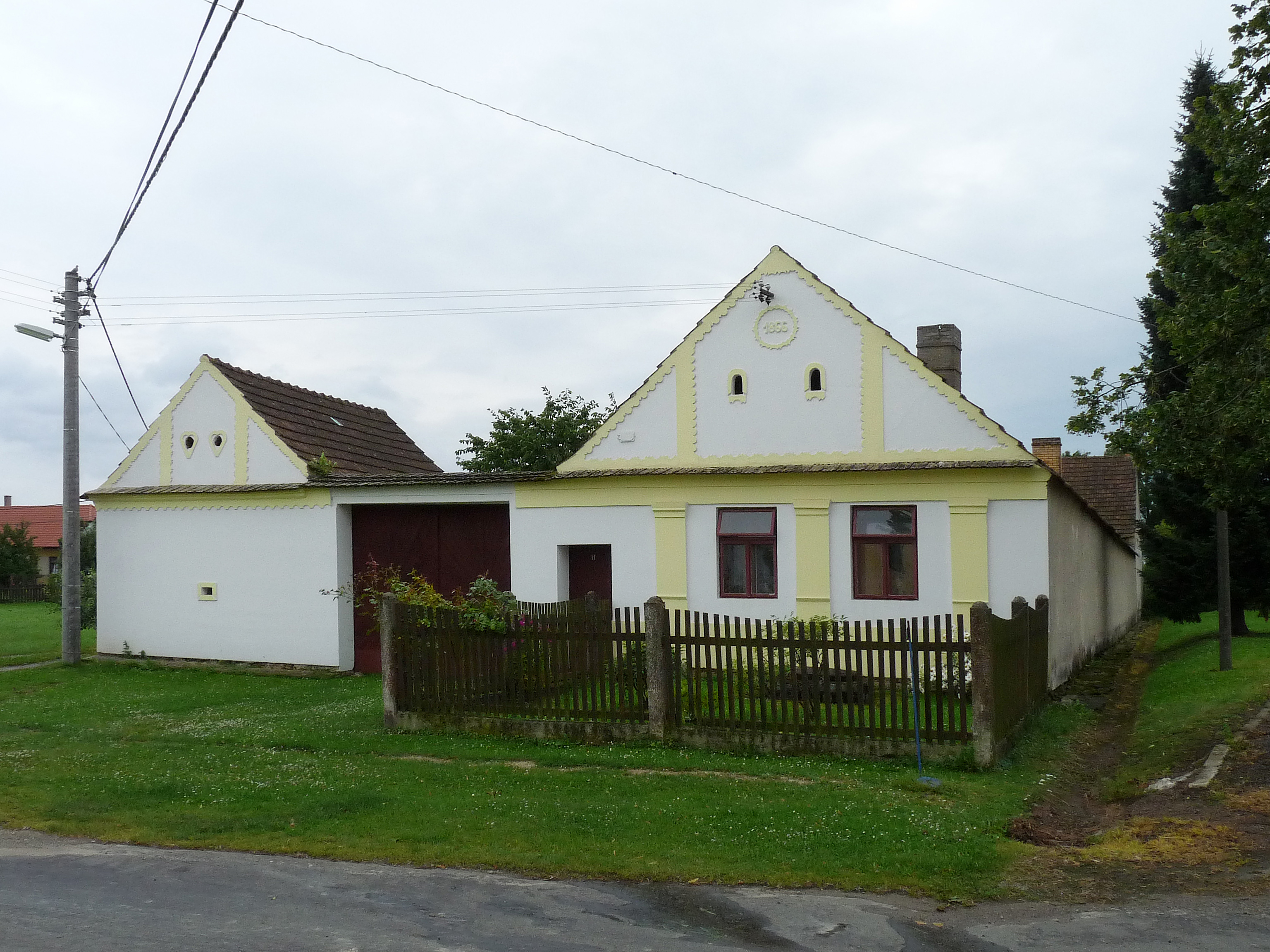 Cottage No 11 in Vlastiboř, Tábor district, Czech Republic, dated 1855